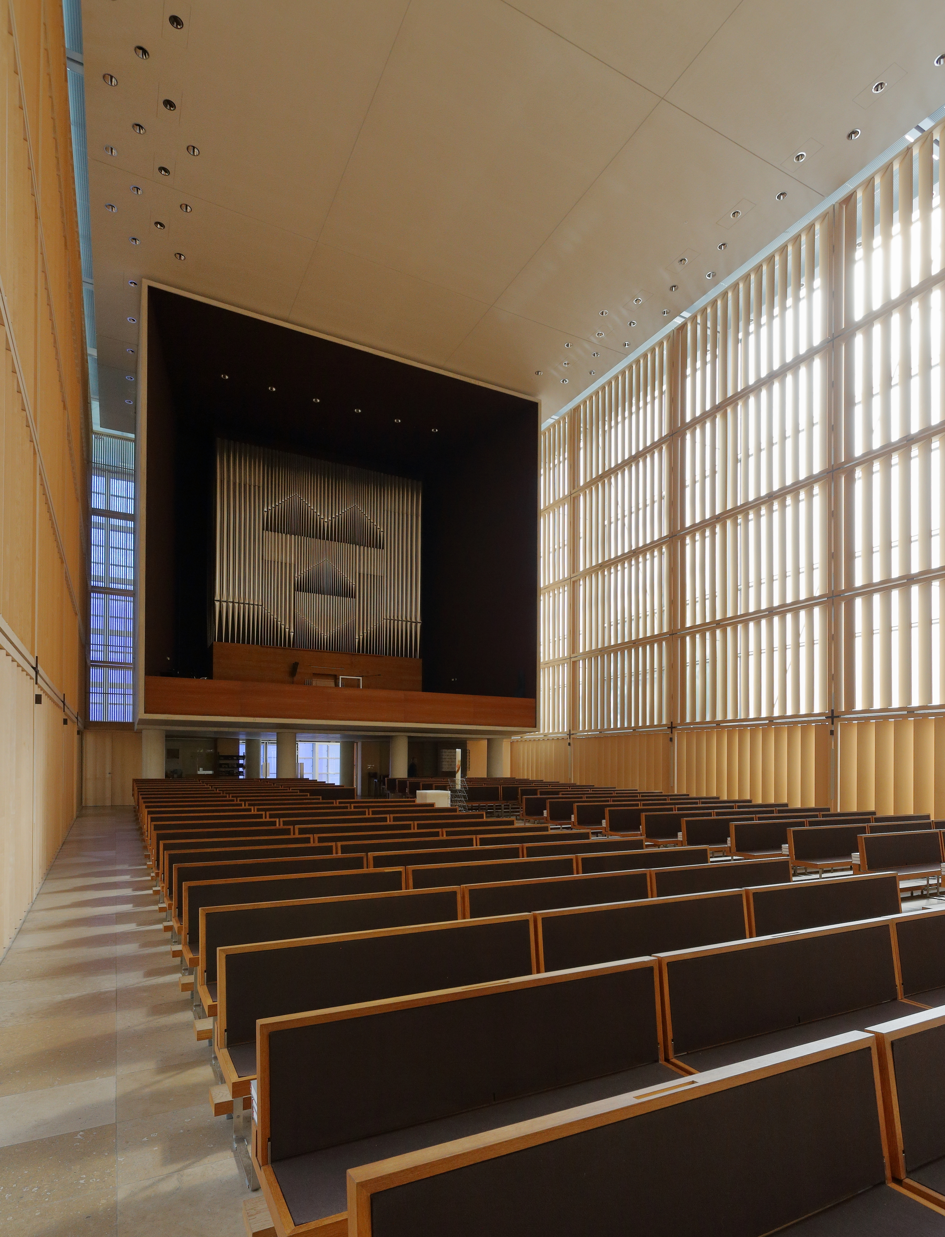 Sacred Heart Church, Munich, interior